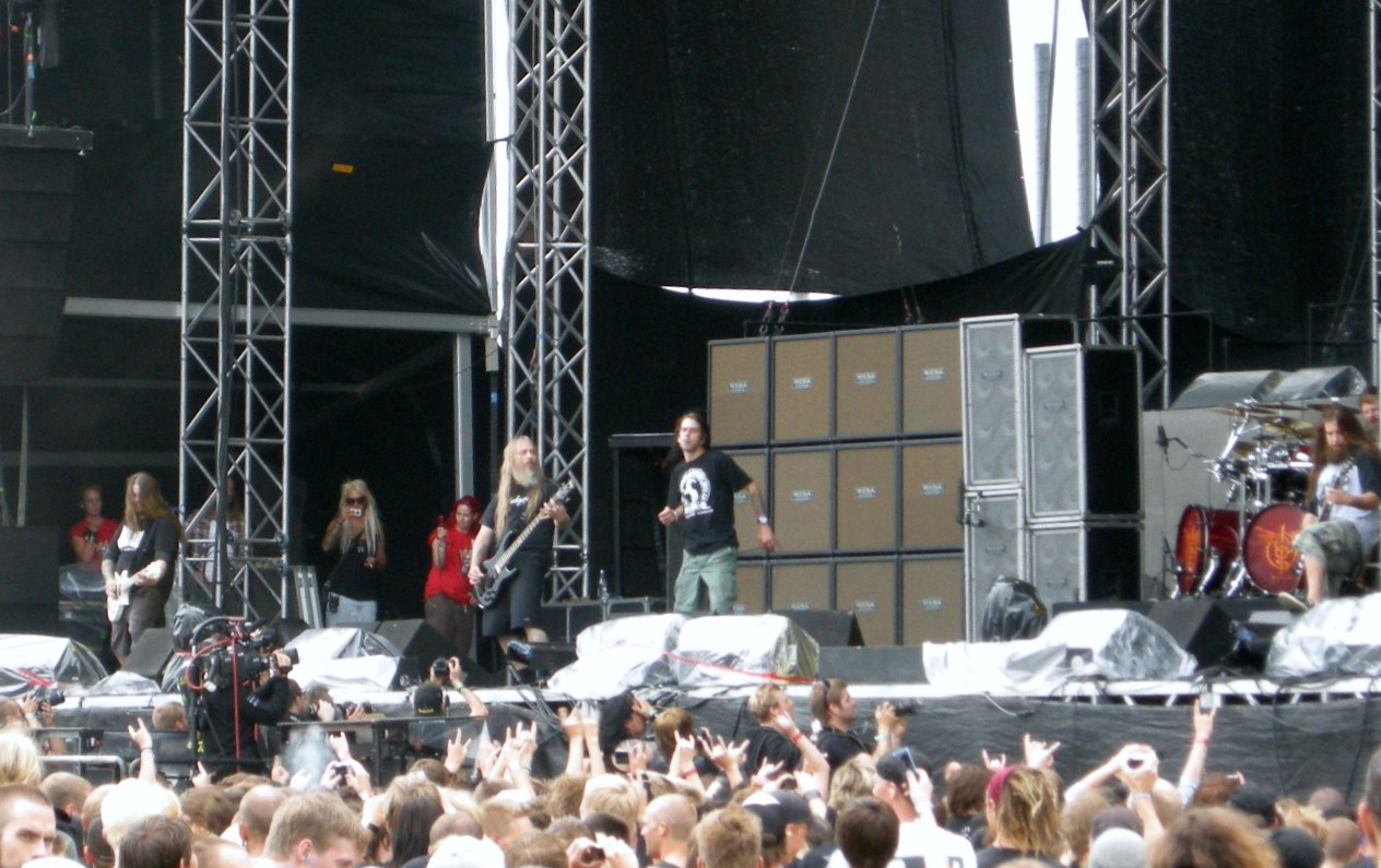 Lamb of God at Sonisphere Sweden 2009